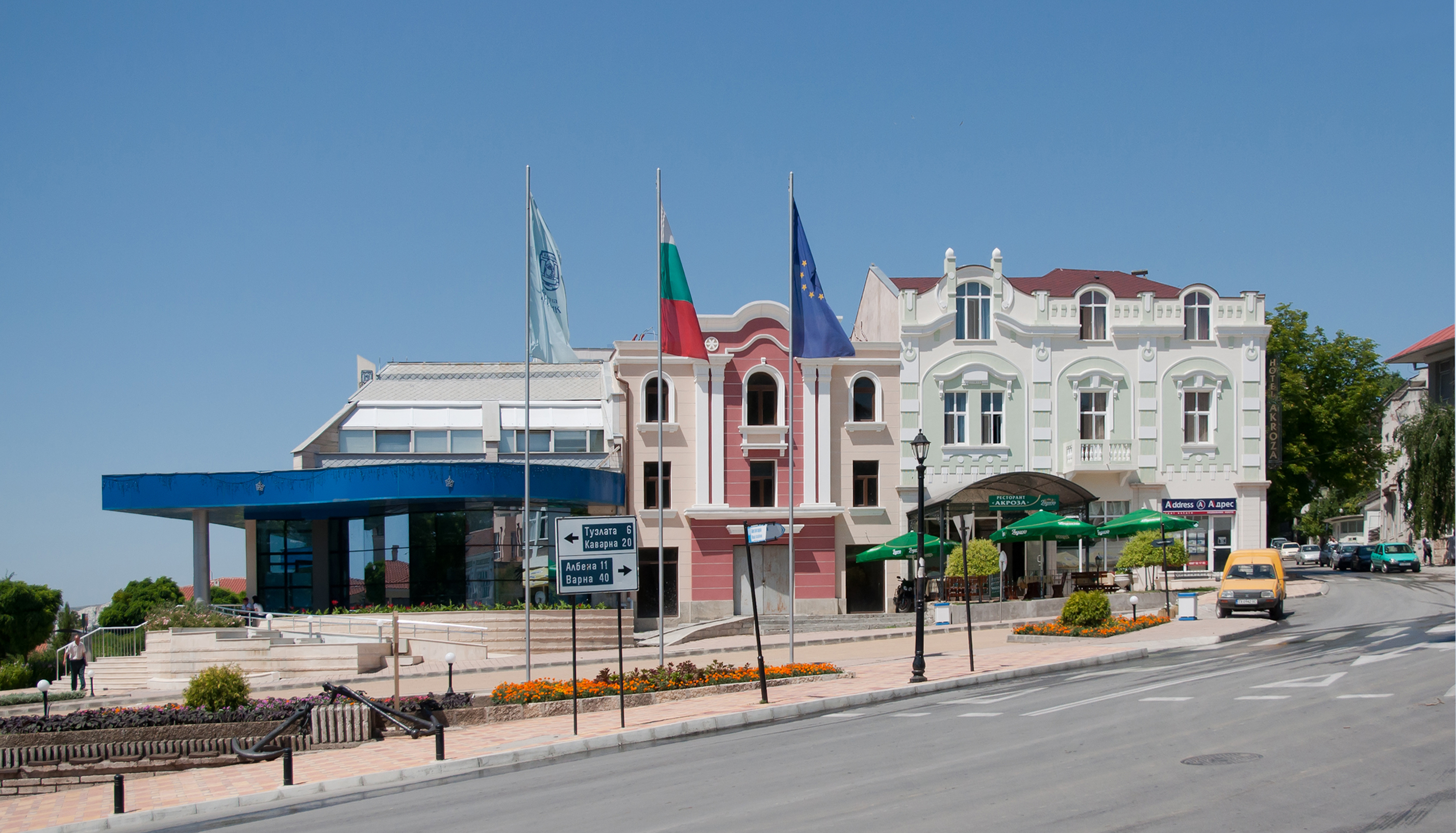 The central square in the seaside town of Balchik with the Town Hall in left.